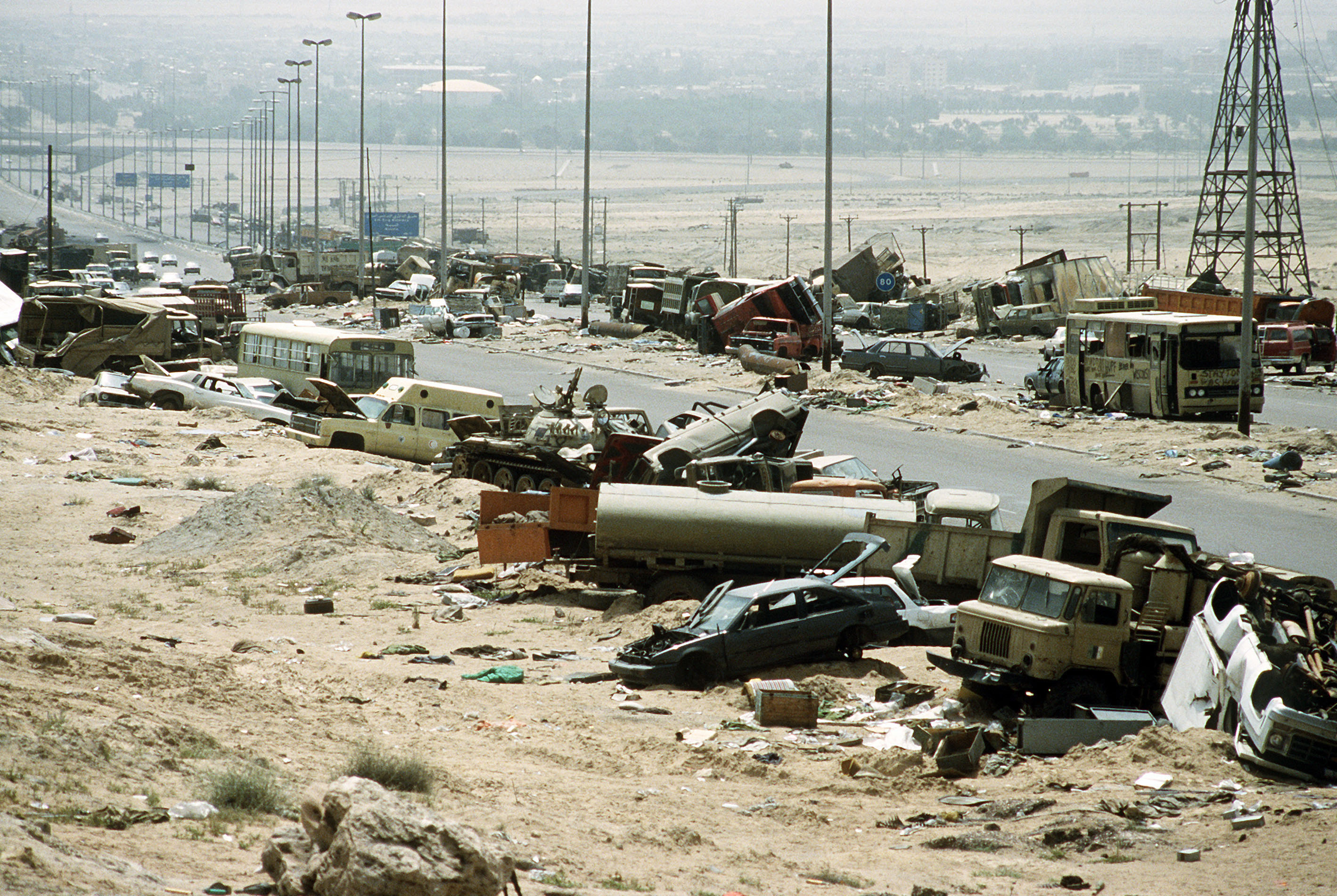 Demolished vehicles line Highway 80, also known as the "Highway of Death", the route fleeing Iraqi forces took as they retreated fom Kuwait during Operation Desert Storm. The tank visible in the center of the picture is either a Type 59 or a Type 69 as evidenced by the dome-shaped ventilator on the top of the turret and the headlamps on the right fender.